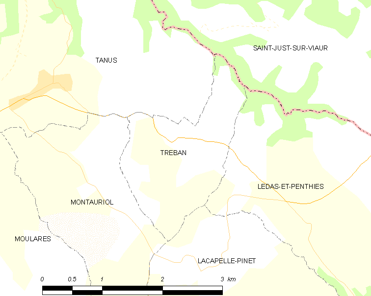 Map of French municipality Tréban